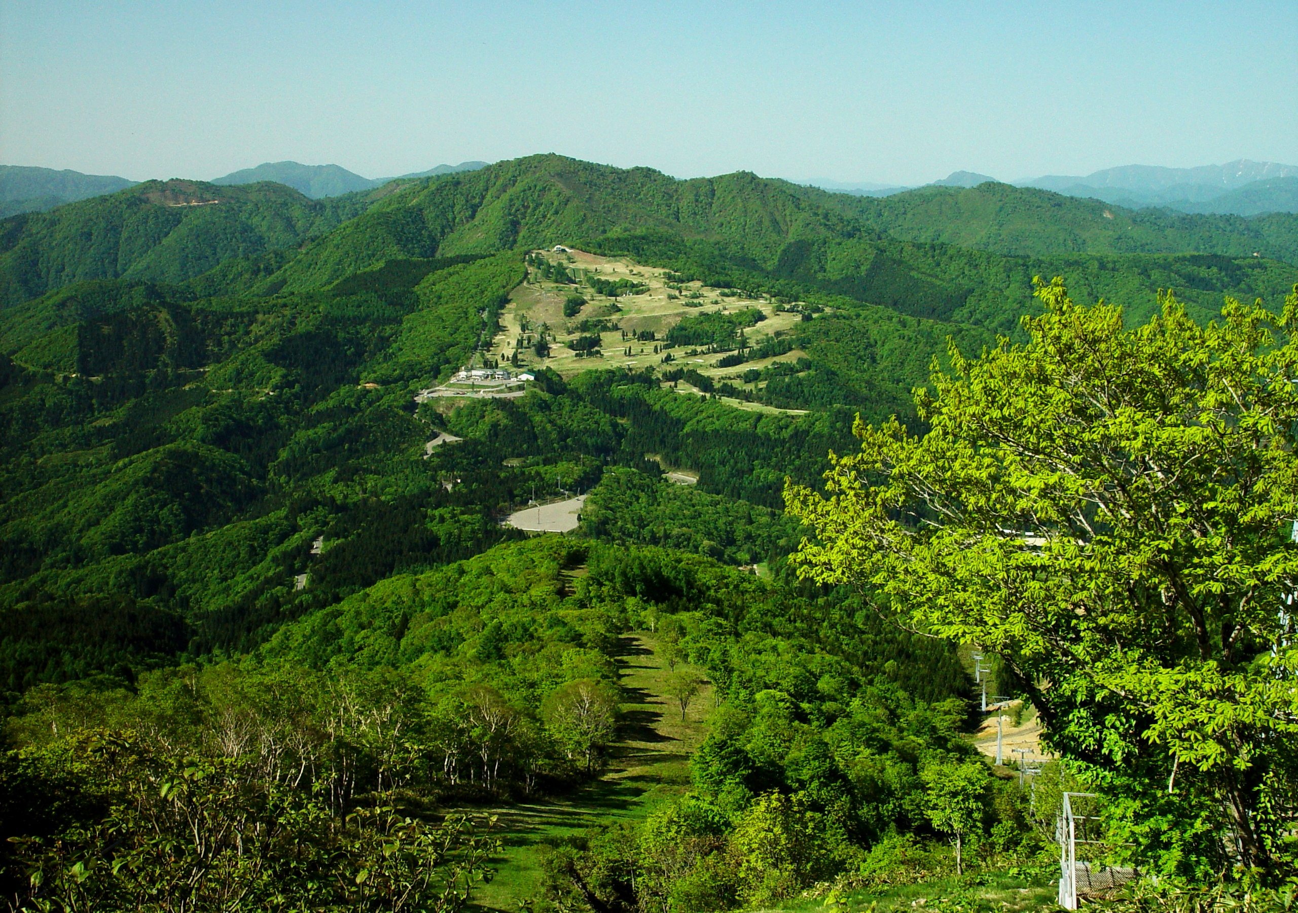 Mount Bishamon seen from Mount Suigo in Ryohaku Mountains, Japan.